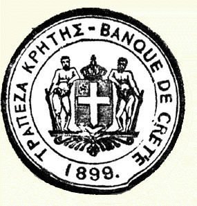 Seal of the Bank of Crete 1899 (not related with the Bank of Crete of the end of the 20th century) Historical archive of the National Bank of Greece, archive of the Bank of Crete. From the Historical Museum of Crete.